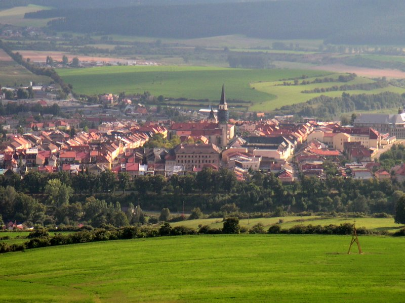 Levoca. I took this picture.